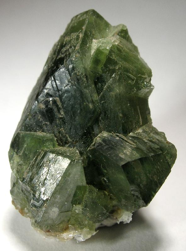 Ludlamite Locality: Blackbird Mine, Blackbird District, Lemhi County, Idaho, USA (Locality at ) Size: thumbnail, 1.9 x 1.6 x 1.3 cm Ludlamite Very attractive cluster of thick, gemmy crystals. The exposed crystal edges are very sharp, and these are highlighted by the good luster. Add to that an attractive forest green color and an appealing translucence which gives the crystals depth, and you have a high-quality thumb. CLASSIC OLD MATERIAL ! 1.9 x 1.6 x 1.3 cm